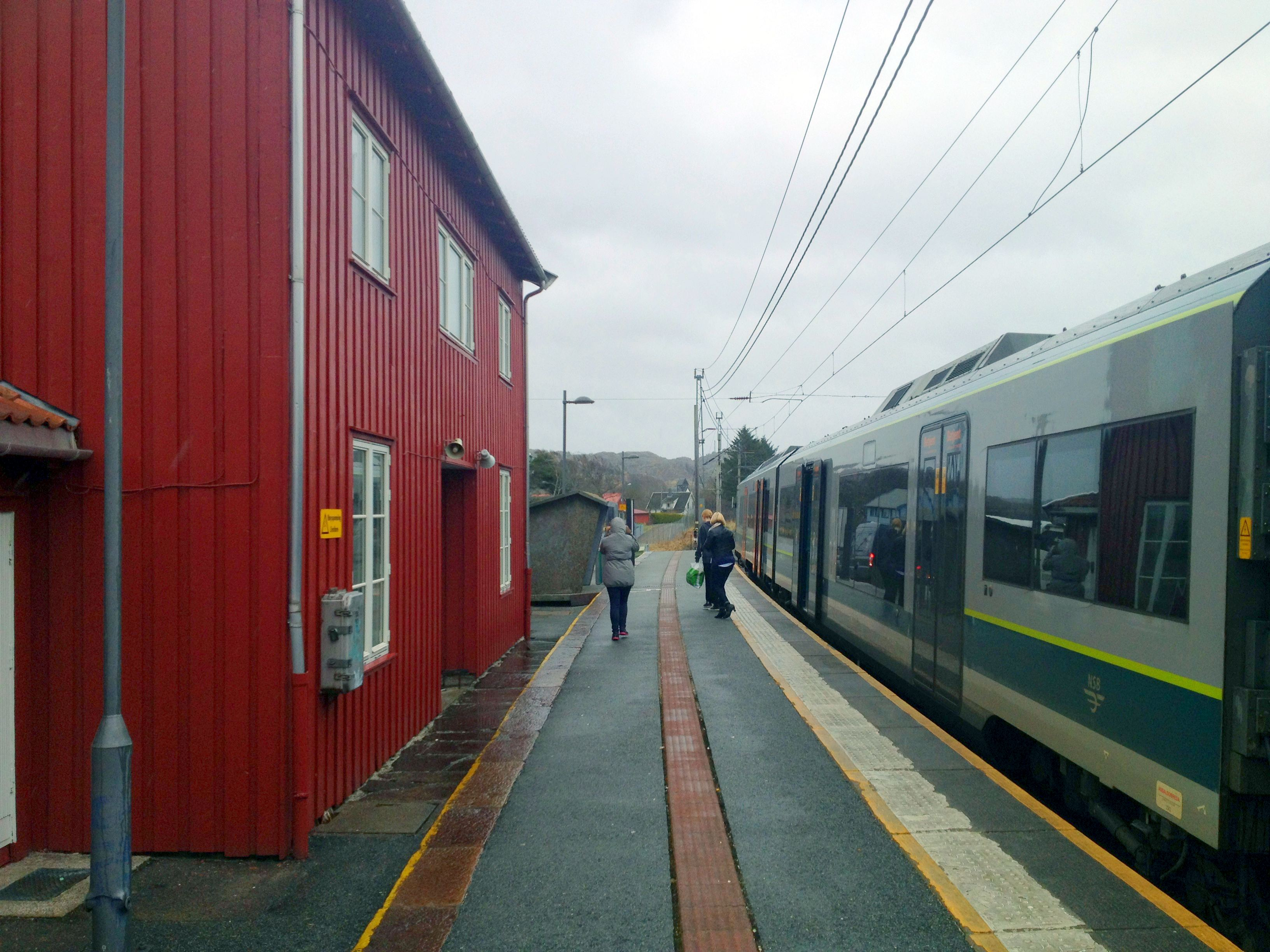 Ogna stasjon, Rogaland.